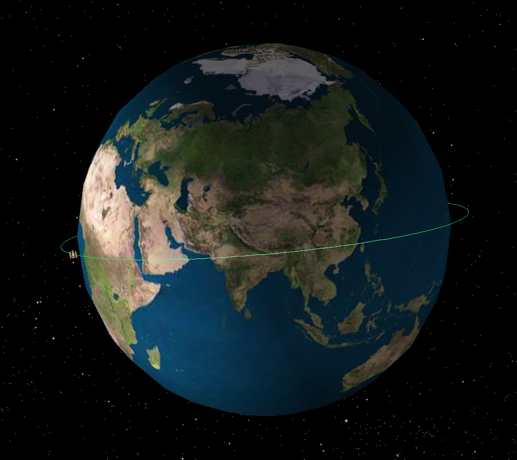 Diagram showing the altitude of the orbit of the Hubble Space Telescope.